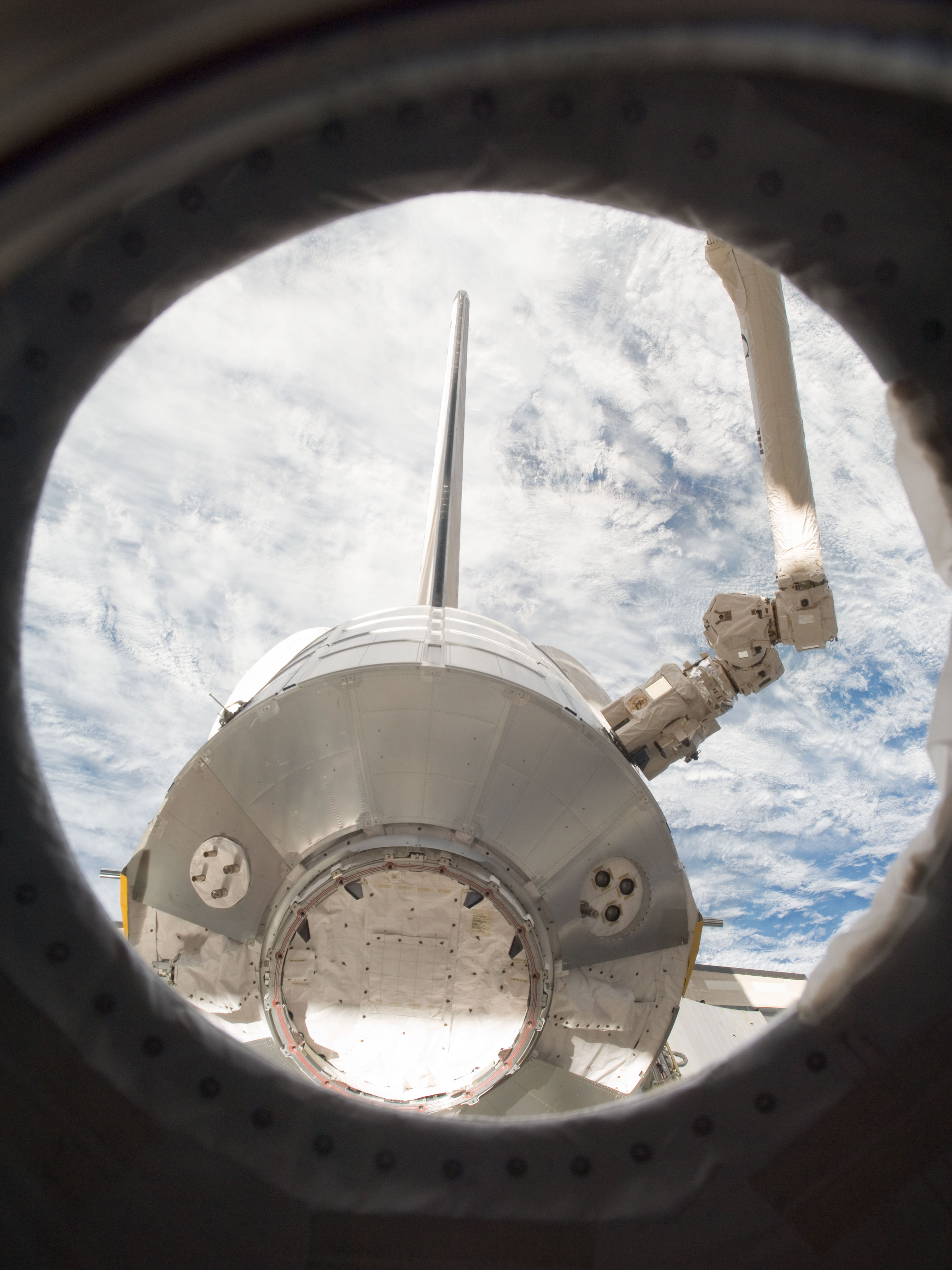 In the grasp of the International Space Station's Canadarm2 robotic arm, the Leonardo Multi-Purpose Logistics Module is placed back in space shuttle Discovery's payload bay. NASA astronaut Stephanie Wilson and Japan Aerospace Exploration Agency (JAXA) astronaut Naoko Yamazaki, both STS-131 mission specialists, were at the controls of the robotic arm in the Destiny laboratory. They grappled Leonardo and removed it from the Harmony node and placed it inside the shuttle's payload bay for the return home.